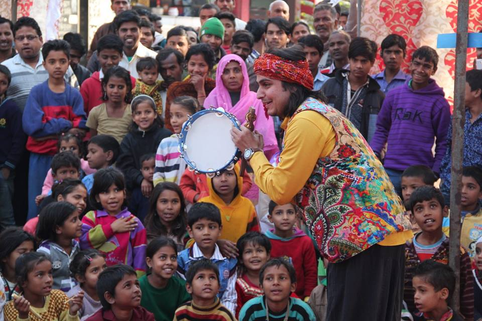 Kabuliwala Storyteller